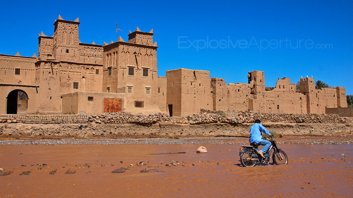 Mud brick city in Ait Benhaddou, Morocco